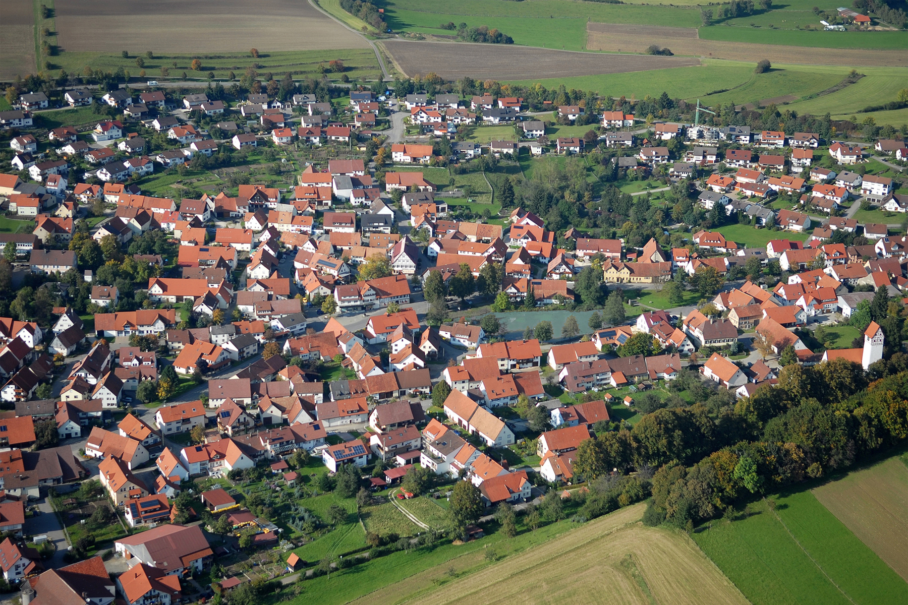 Aerial of the settlement Zainingen, part of the municipality Römerstein, Middle Swabian Alb. Zainingen is an old settlement in a small depression on the Alb’s plateau. The small depression is the relict of a maar, low-relief of a volcanic crater of the type phreatomagmatic eruption. In several million years since the first volcanic eruption in Miocene the Upper Jurassic strata of the plateau weathered up to 200m - accordingly the maar relief - yet this is morphologically still distinctively visible. While the environment is karstic, the volcanic rock at the base of the low is impermeable. Early settlements on the Alb favored such lows for their availability of water from small karst springs or natural pools, which collected the water at the deepest points, respectively. One of three pools survived and is now the esthetical center of the community.